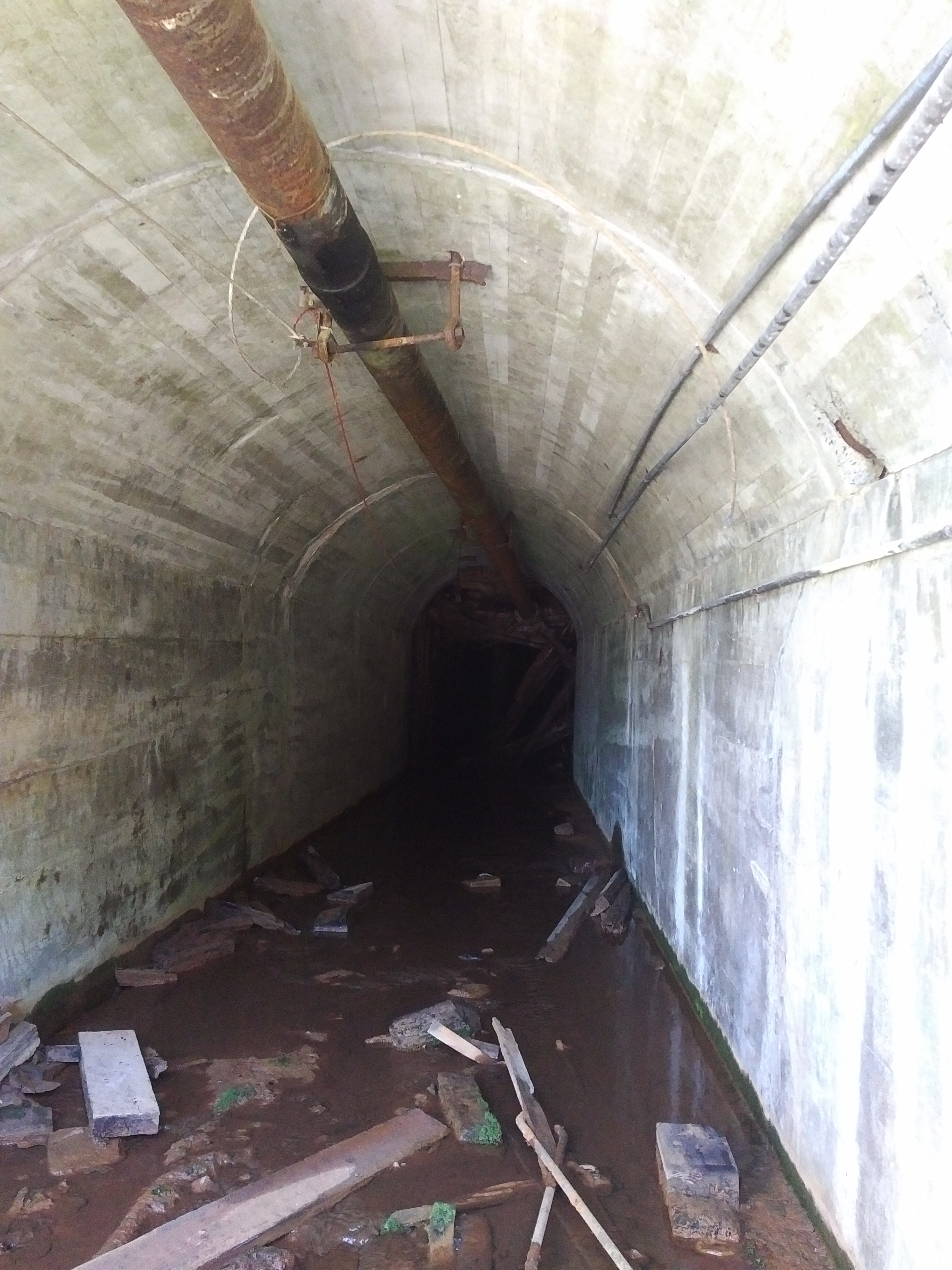 Abandoned flooded mine near Burke, Idaho